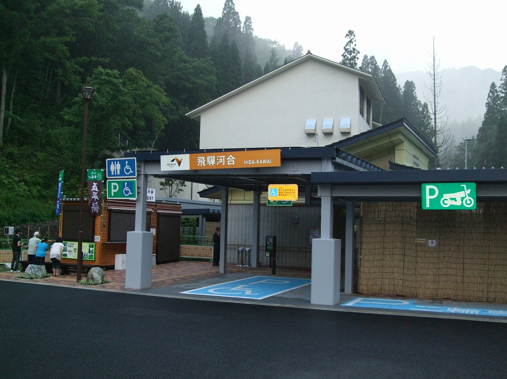 Hida-Kawai Parking Area on the Tokai-Hokuriku Expressway inbound line